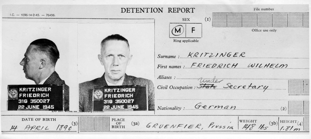 Friedrich Wilhelm Kritzinger, Secretary of State in the Reich-Chancellery from 1942 to 1945, as a prisoner of war